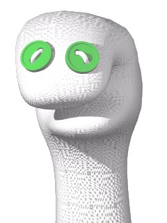 Sock puppet made in Blender